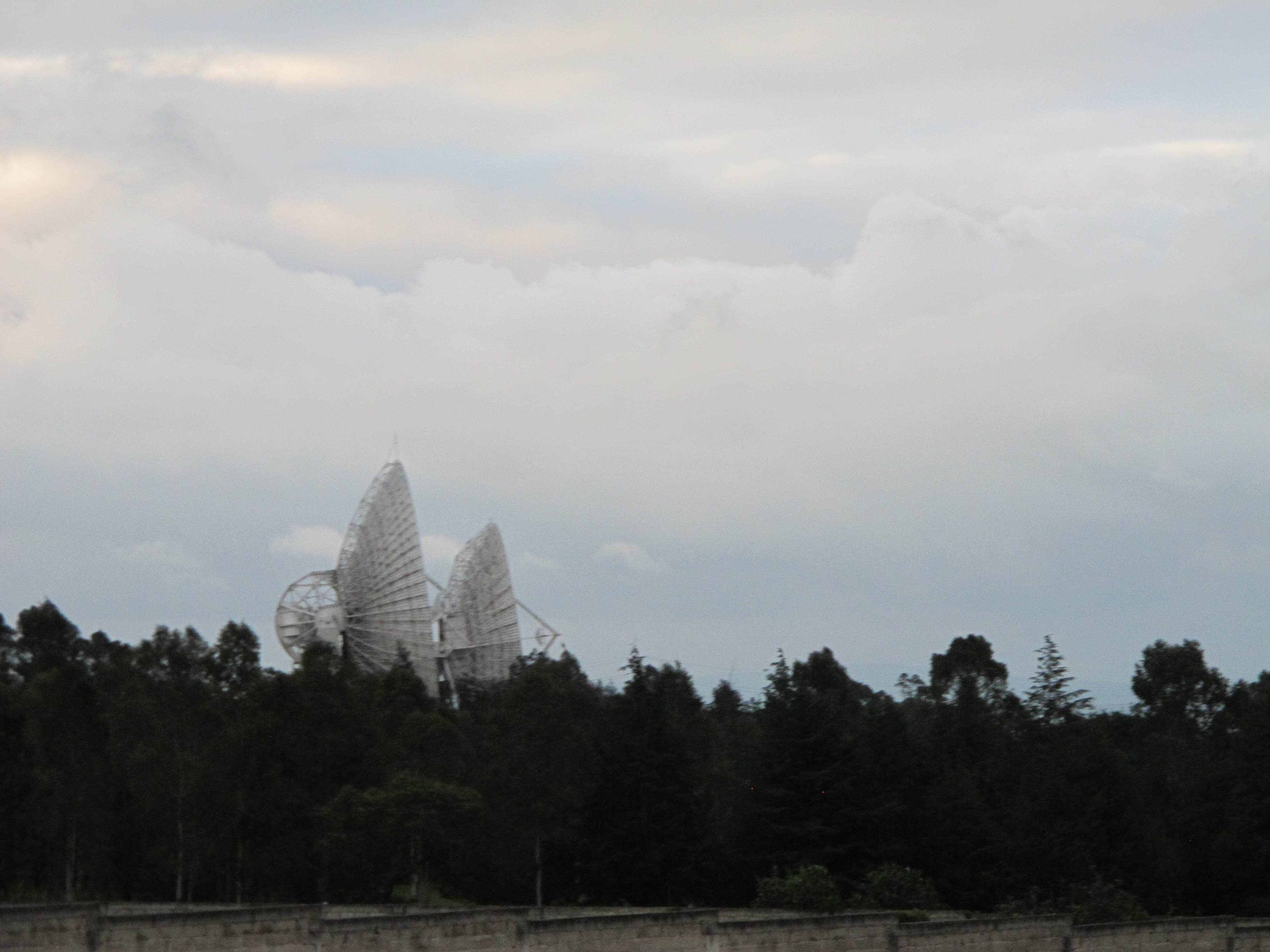 Satellite dishes of the town Los Romeros, located in the municipality of Santiago Tulantepec, Hidalgo State.